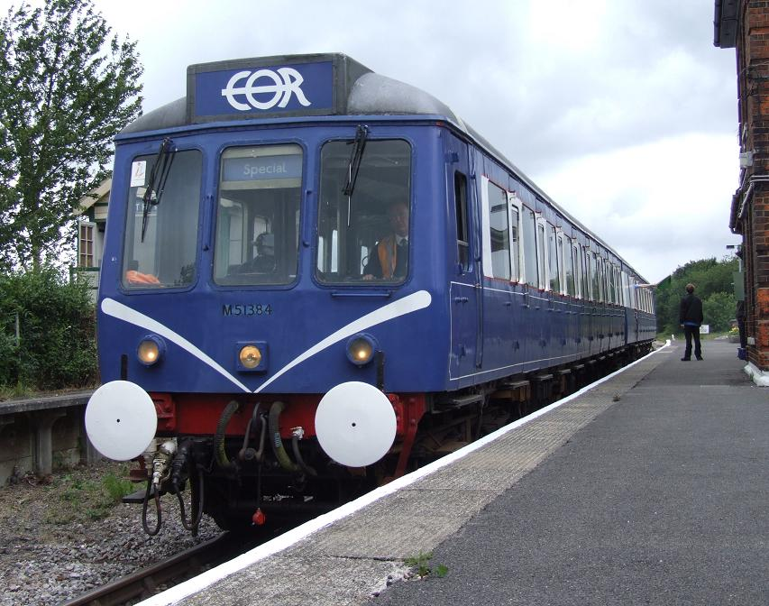 The Epping Ongar Railway's DMU